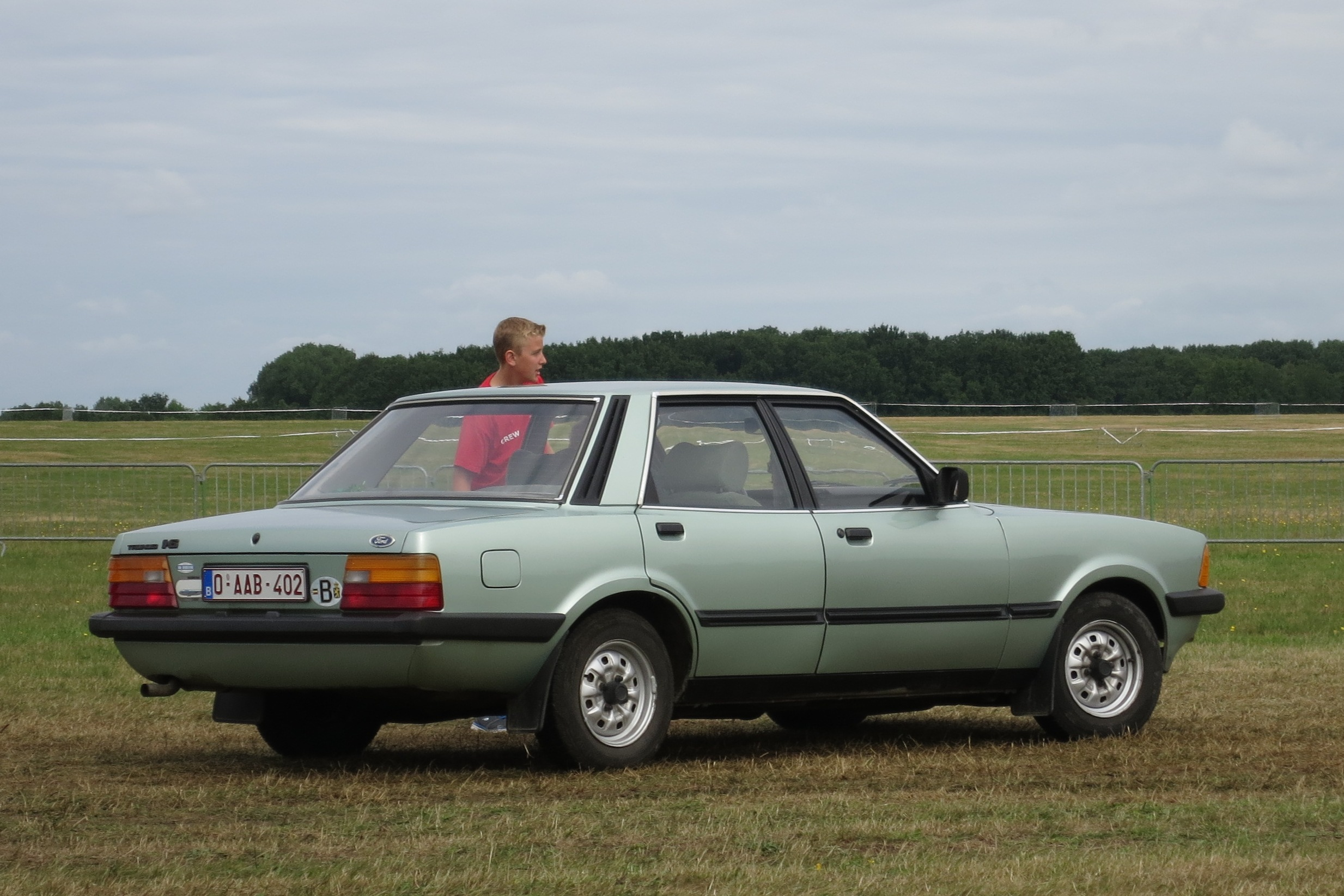 Ford Taunus in Belgium